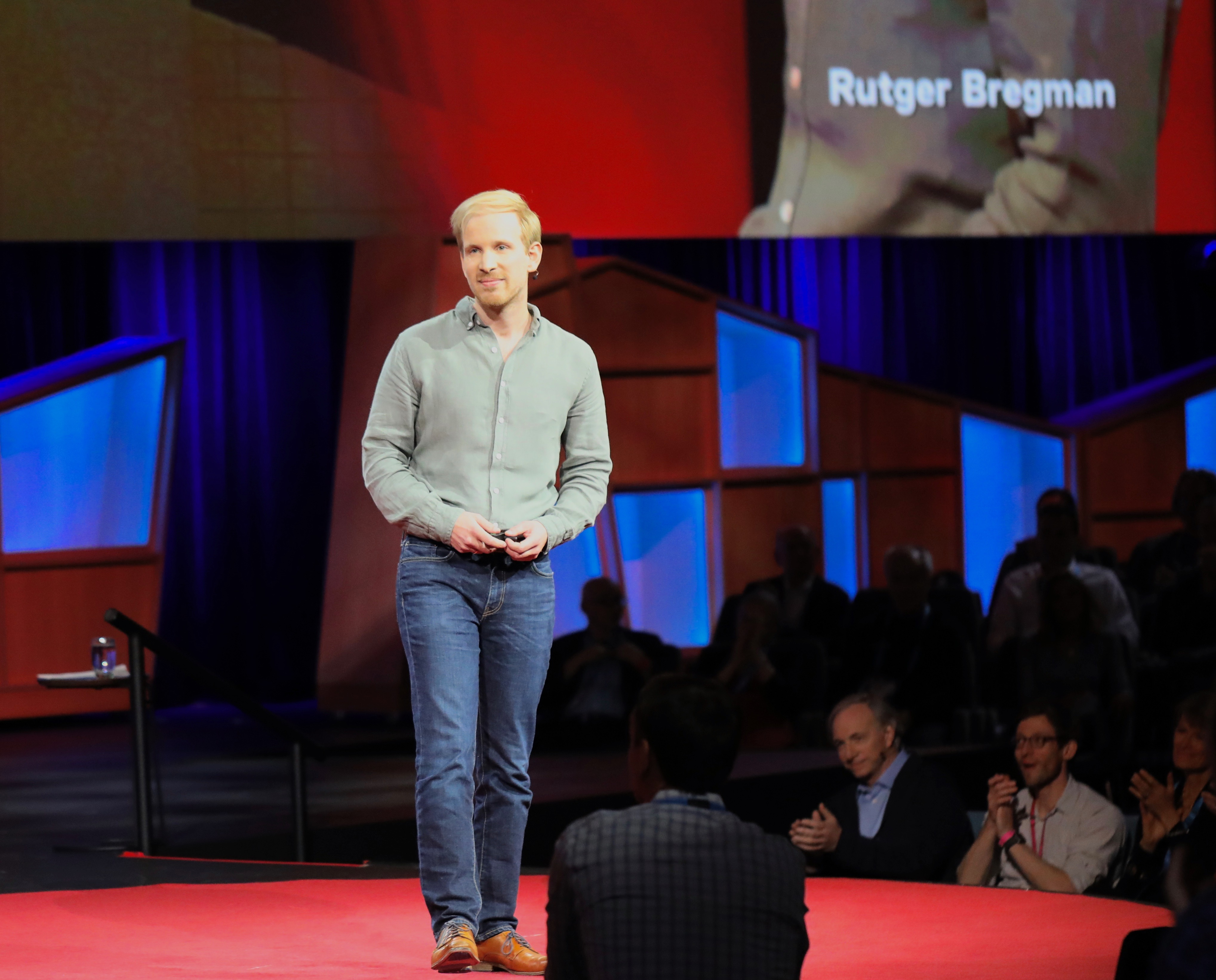 Guaranteed Basic Income "Poverty isn't a lack of character; it's a lack of cash" Historian Rutger Bregman's TED Talk went live. "Why do the poor make such poor decisions?" Scarcity mentality. Losing a night's sleep is the same as losing 14 IQ points. Orwell: "Poverty annihilates the future." Bregmen goes on to summarize the four-year Basic Income experiment conducted in Dauphin, Canada in 1974.